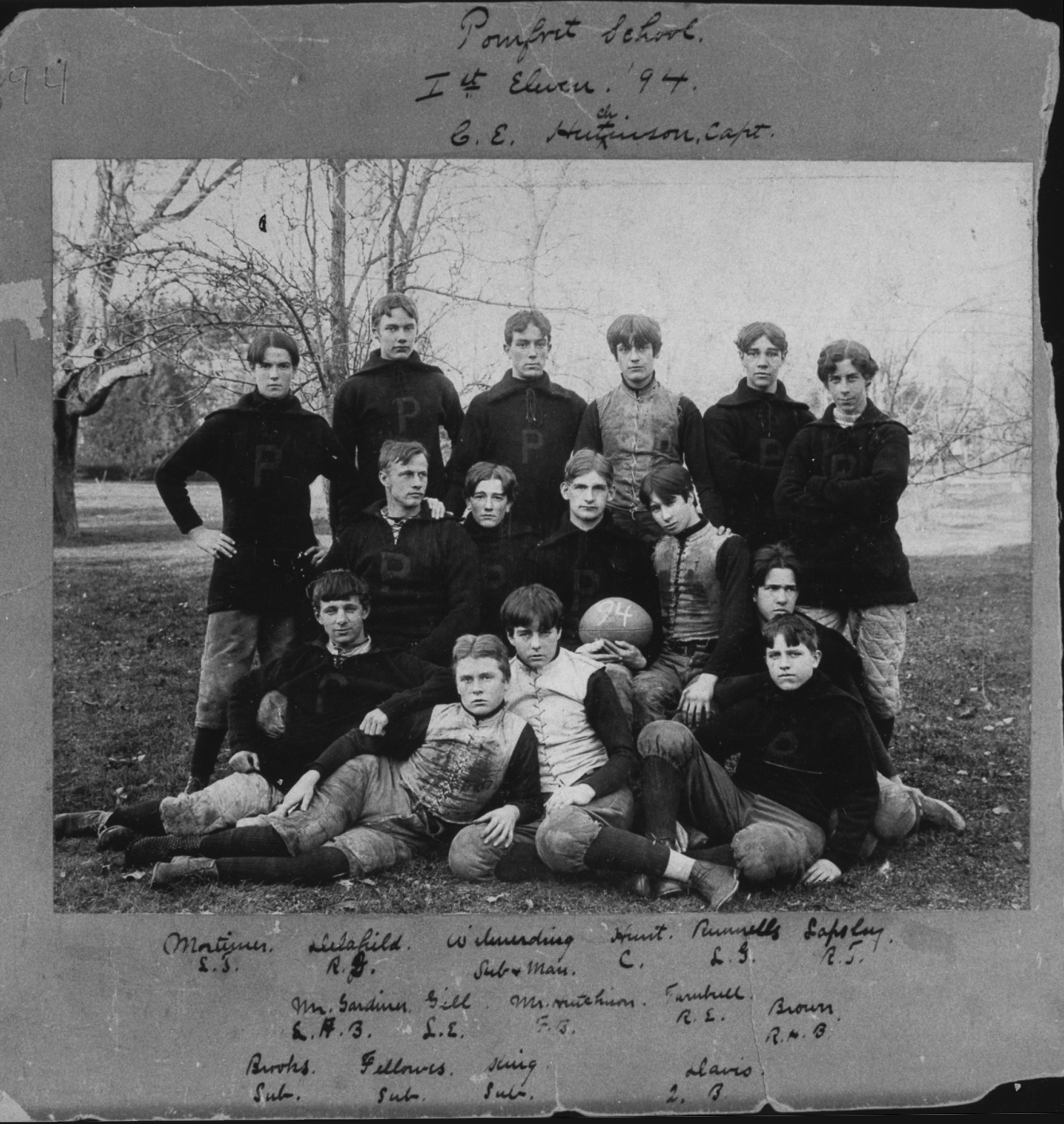 Pomfret School "1st Eleven" football team 1894